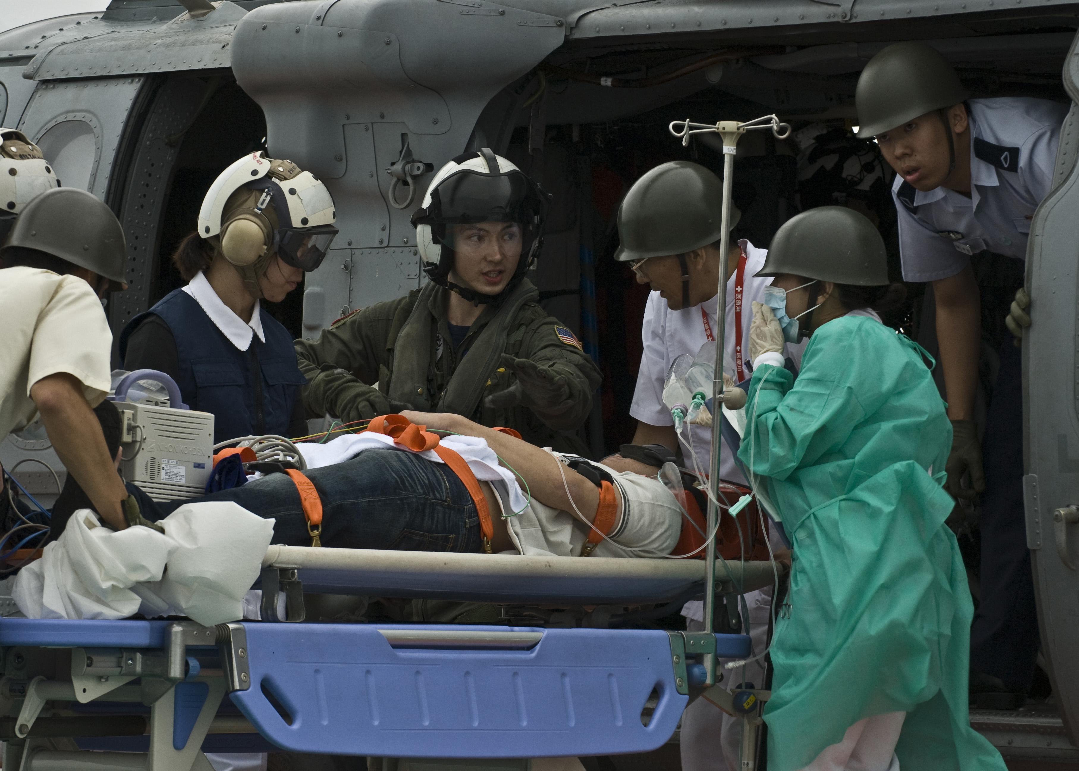 TOKYO (Aug. 30, 2009) A naval air crewman assigned to Sea Combat Helicopter Squadron (HSC) 25 assists Japanese service members and nurses from the Japan Self-Defense Force Central Hospital in Tokyo as they load a simulated victim onto an MH-60S Sea Hawk helicopter during the Tokyo Metropolitan Government disaster drill. (U.S. Navy photo by Mass Communication Specialist 2nd Class Gabriel S. Weber/Released)